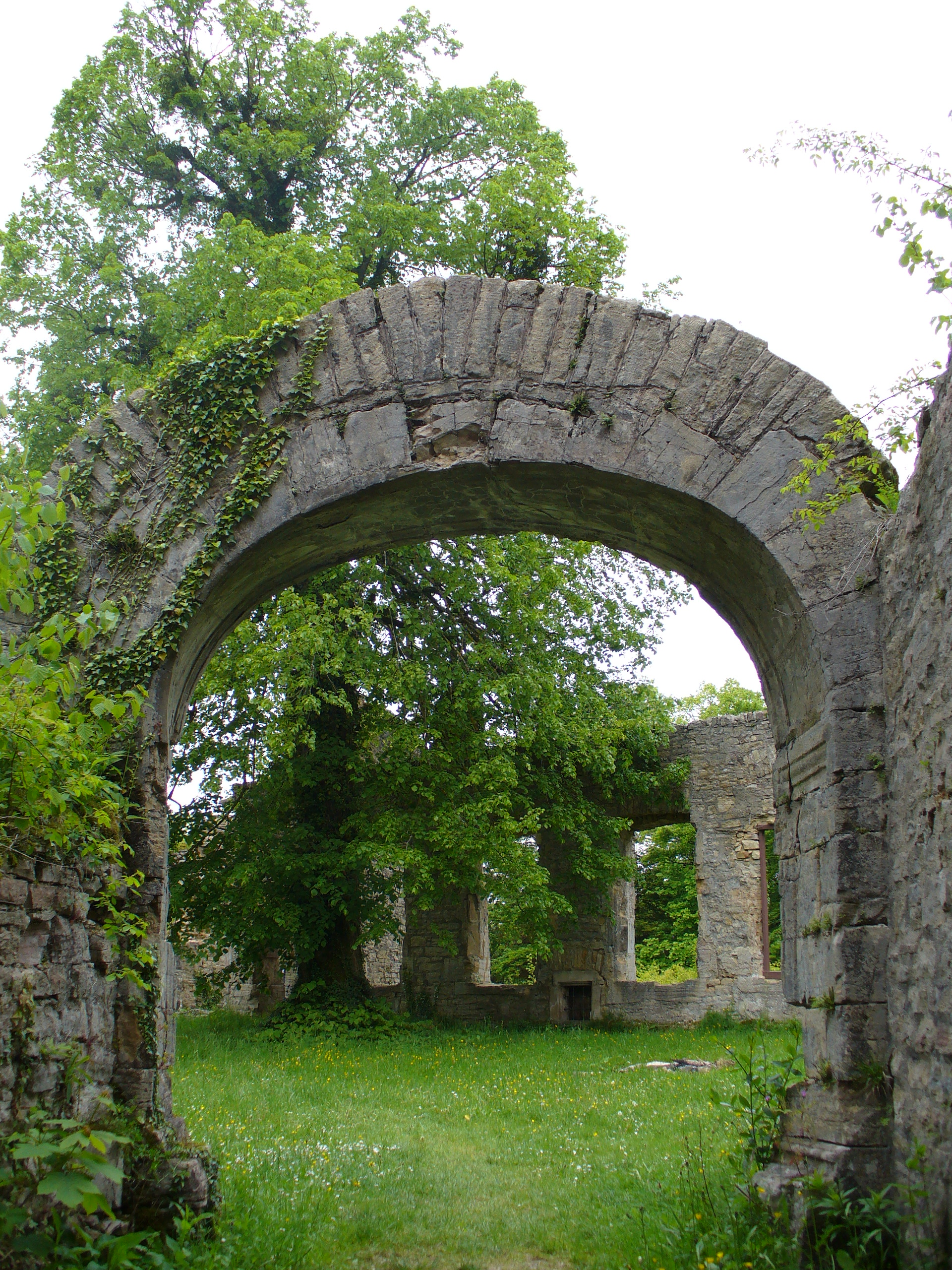 Castle Morimont - Archway